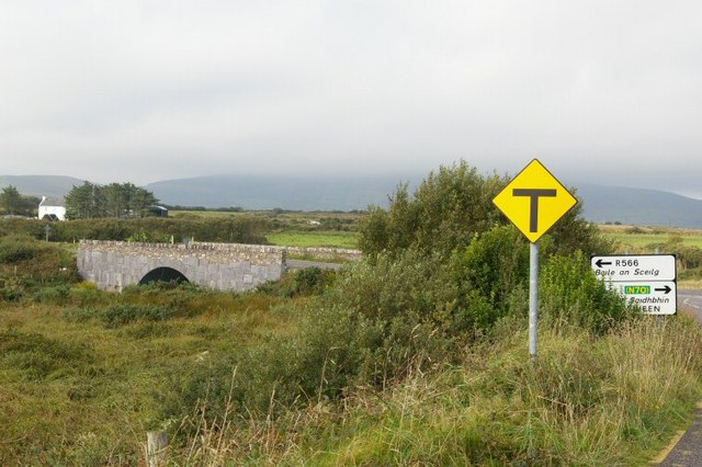 Emlaghmore Bridge This bridge carries the R566 Ballinskelligs Road across the Emlaghmore River.